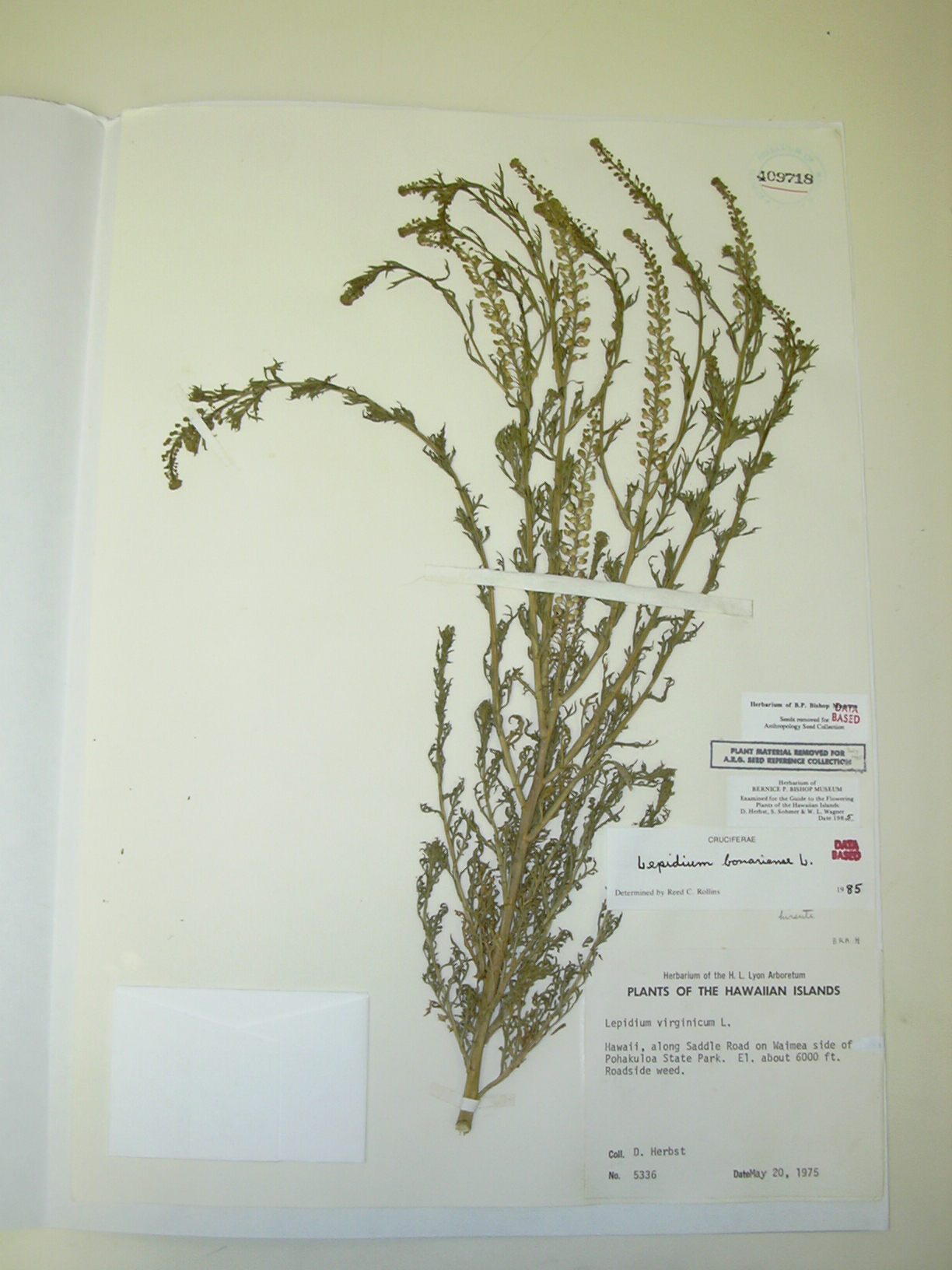 Lepidium bonariense (BISH specimen). Location: Hawaii, Pohakuloa State Park